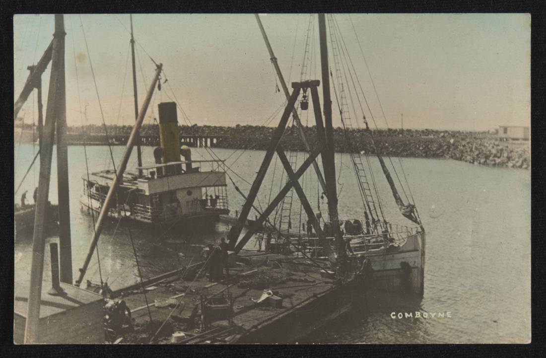 Comboyne being salvaged in Wollongong Harbour